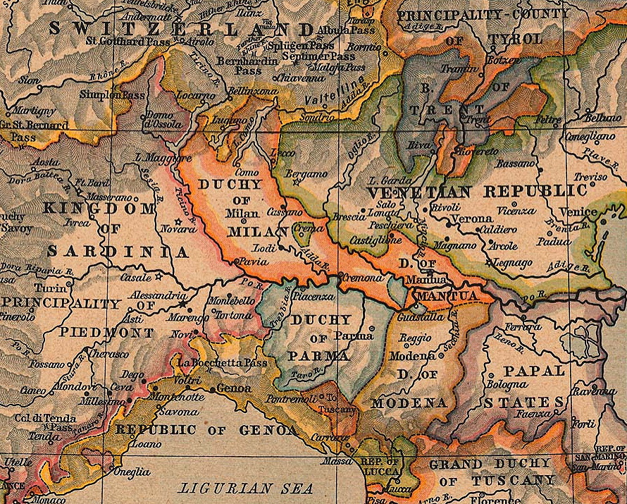 Northen Italy in January 1796